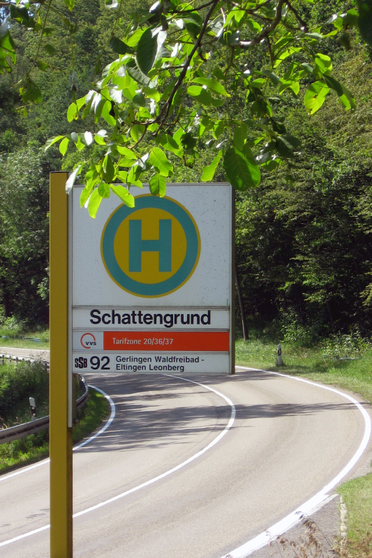 Bus stop Schattengrund near Stuttgart-Büsnau